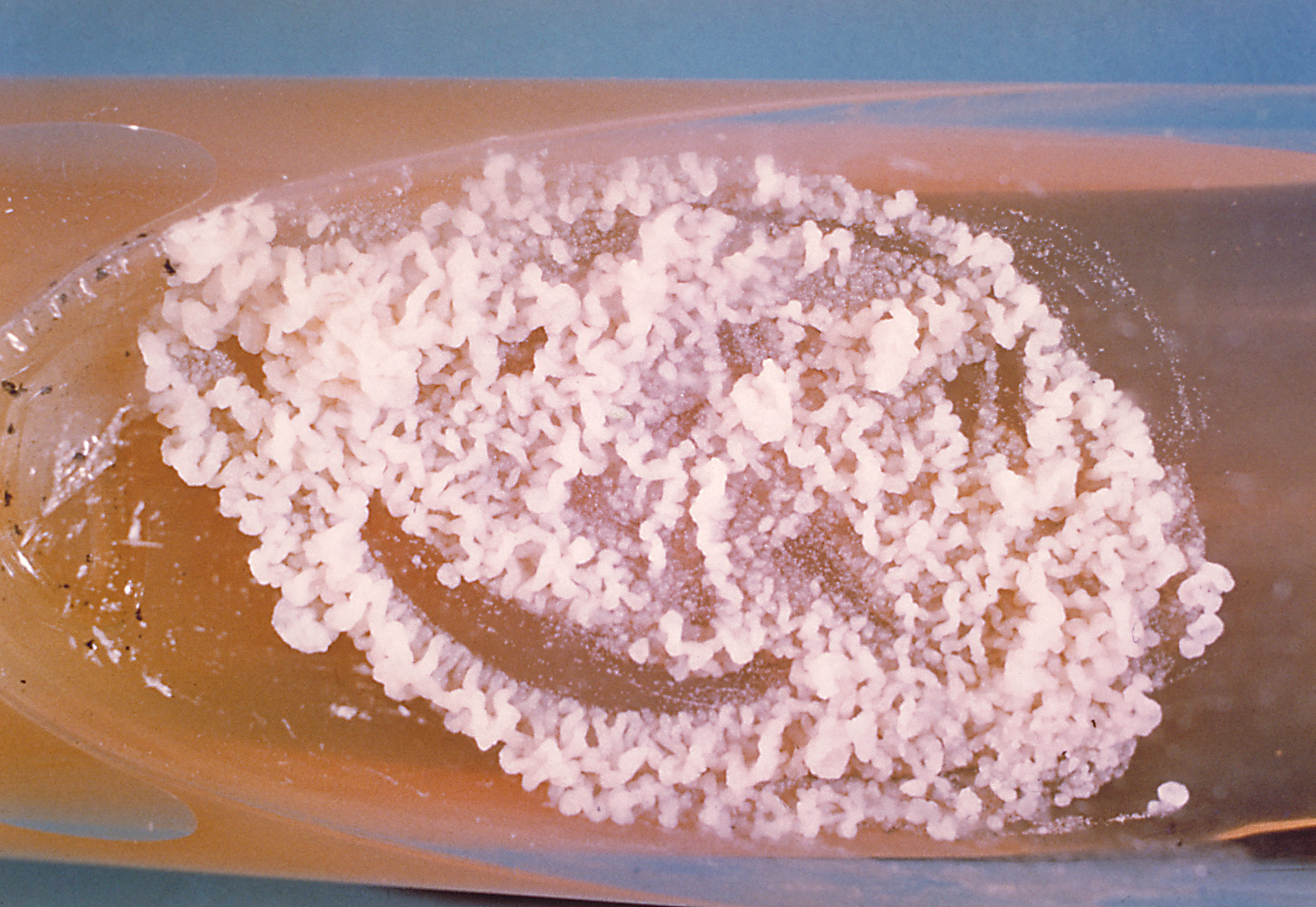 A slant culture growing the fungus Paracoccidioides brasiliensis during its yeast phase.